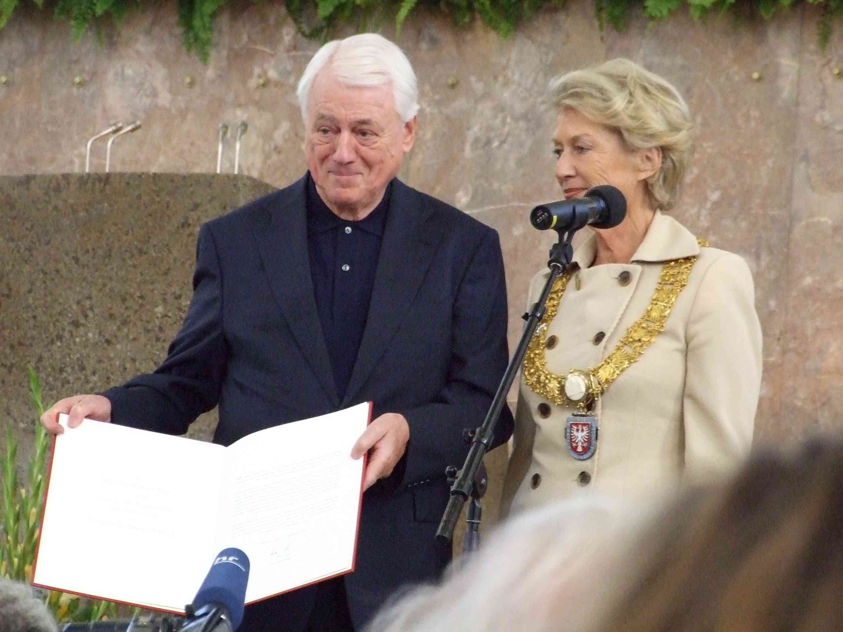 Alexander Kluge gets the "Theodor-W.-Adorno-Preis" (award) (2009), from Petra Roth (mayor of Frankfurt am Main) in the "Paulskirche" in Frankfurt am Main, Hesse, Germany